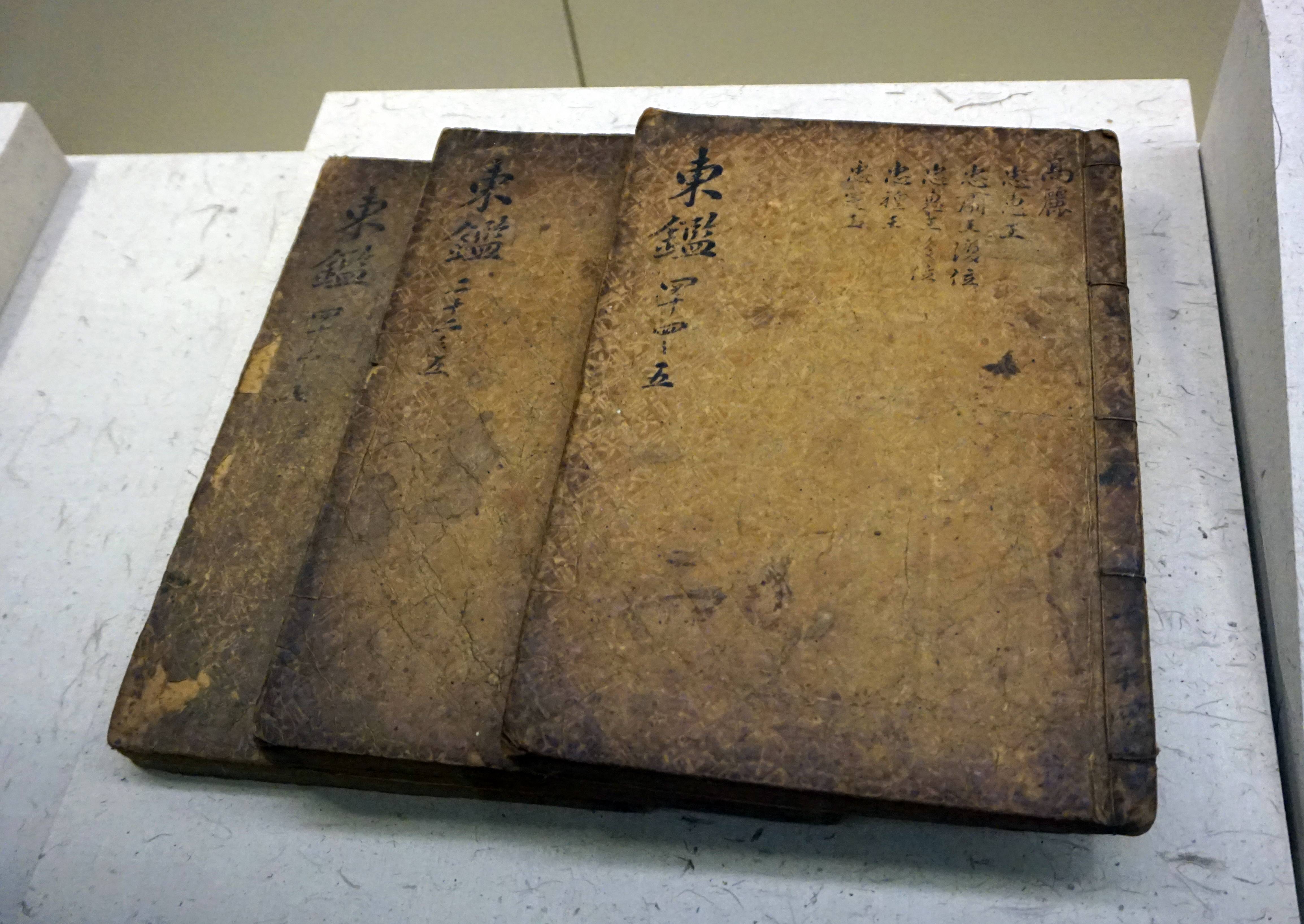 Dongguk Tonggam.